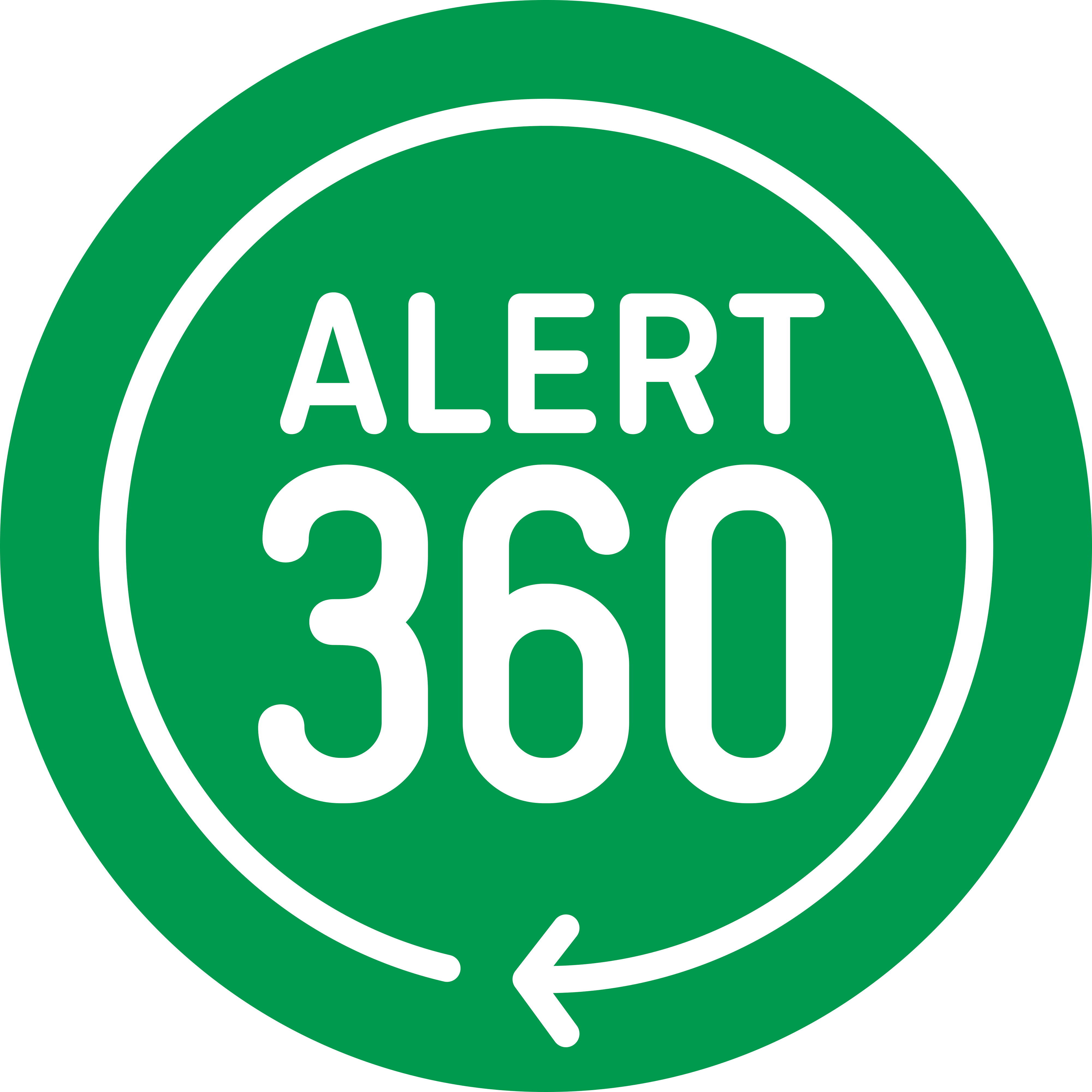 Logo of Alert 360 as of September 10, 2018.